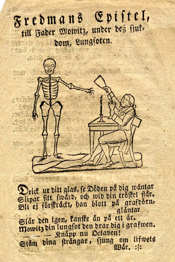 A Broadside with Carl Michael Bellman's Fredman's Epistle number 30: Drick ur ditt glas, se Döden på dig väntar (In Britten Austin's traslation "Drain off thy glass, see death upon thee waiting". Printed in 1825.